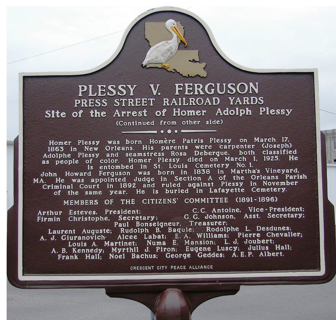 This is the back side of the Plessy v. Ferguson marker installed Feb. 12, 2009.